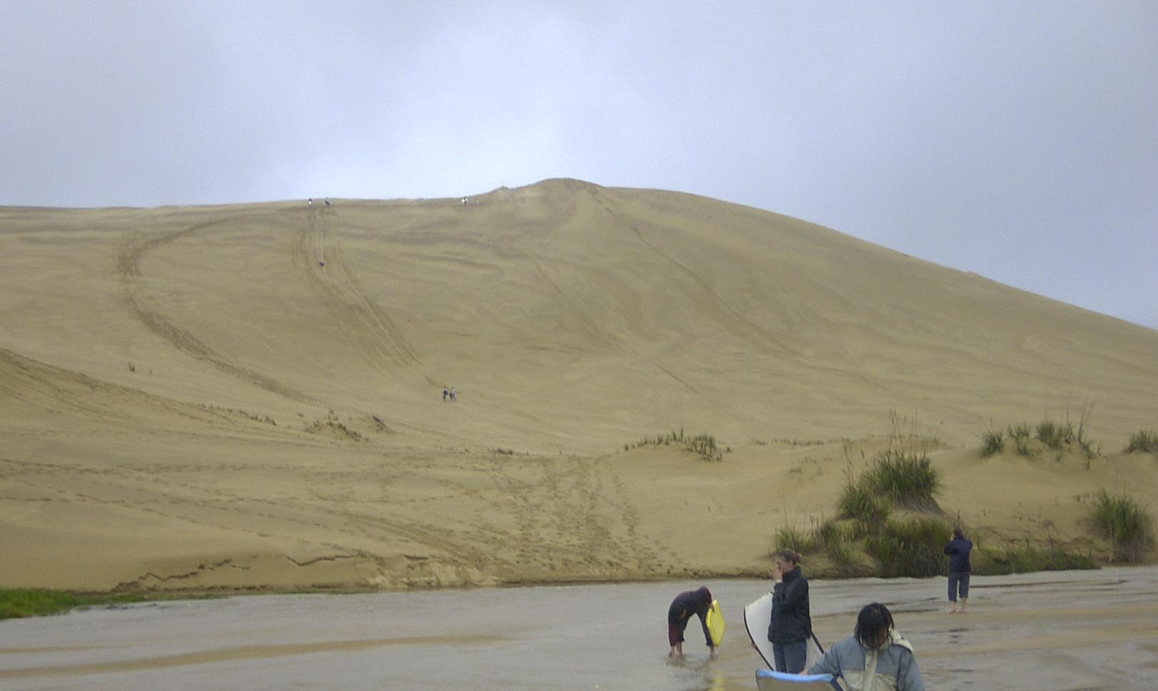 Surfing on Ninety Mile Beach, New Zealand